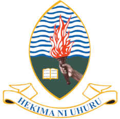 This is the logo for the University of Dar es Salaam with the words that mean wisdom is freedom. Kiswahili: Hii picha ni nembo ya Chuo Kikuu cha Dar es Salaam ikiwa na maneno: Hekima ni Uhuru.